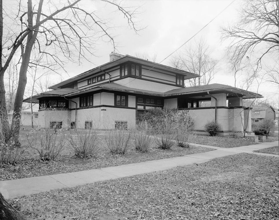 The F.B. Henderson House. The house was designed by Frank Lloyd Wright and is located in Elmhurst, Illinois, USA.